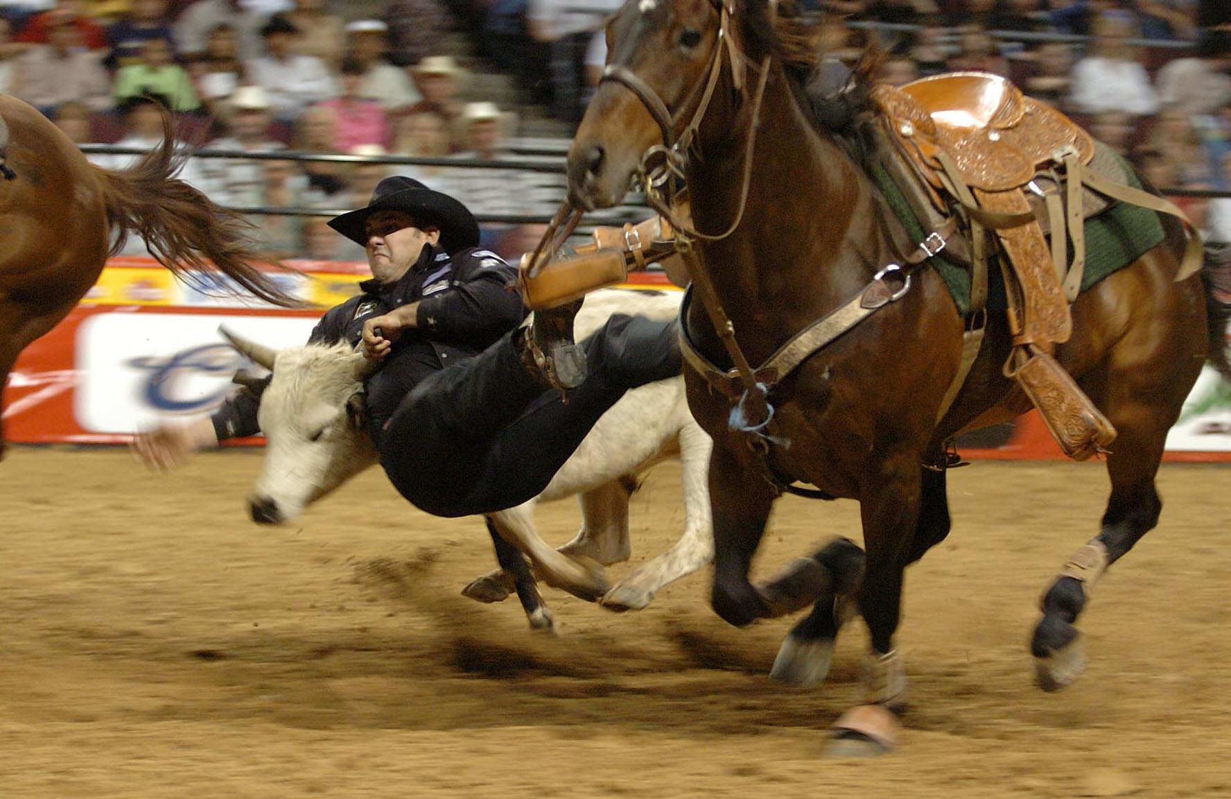 Steer wrestler Luke Branquinho, one of eight Army-sponsored cowboys in the Professional Rodeo Cowboys Association, leaps off his horse and onto a steer at the Pace Picante Pro Rodeo Chute Out in Las Vegas May 15. Branquinho won the steer wrestling competition and took home more than $20,000 from the rodeo.